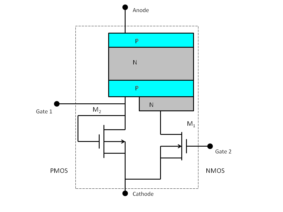 PN structure of ETO